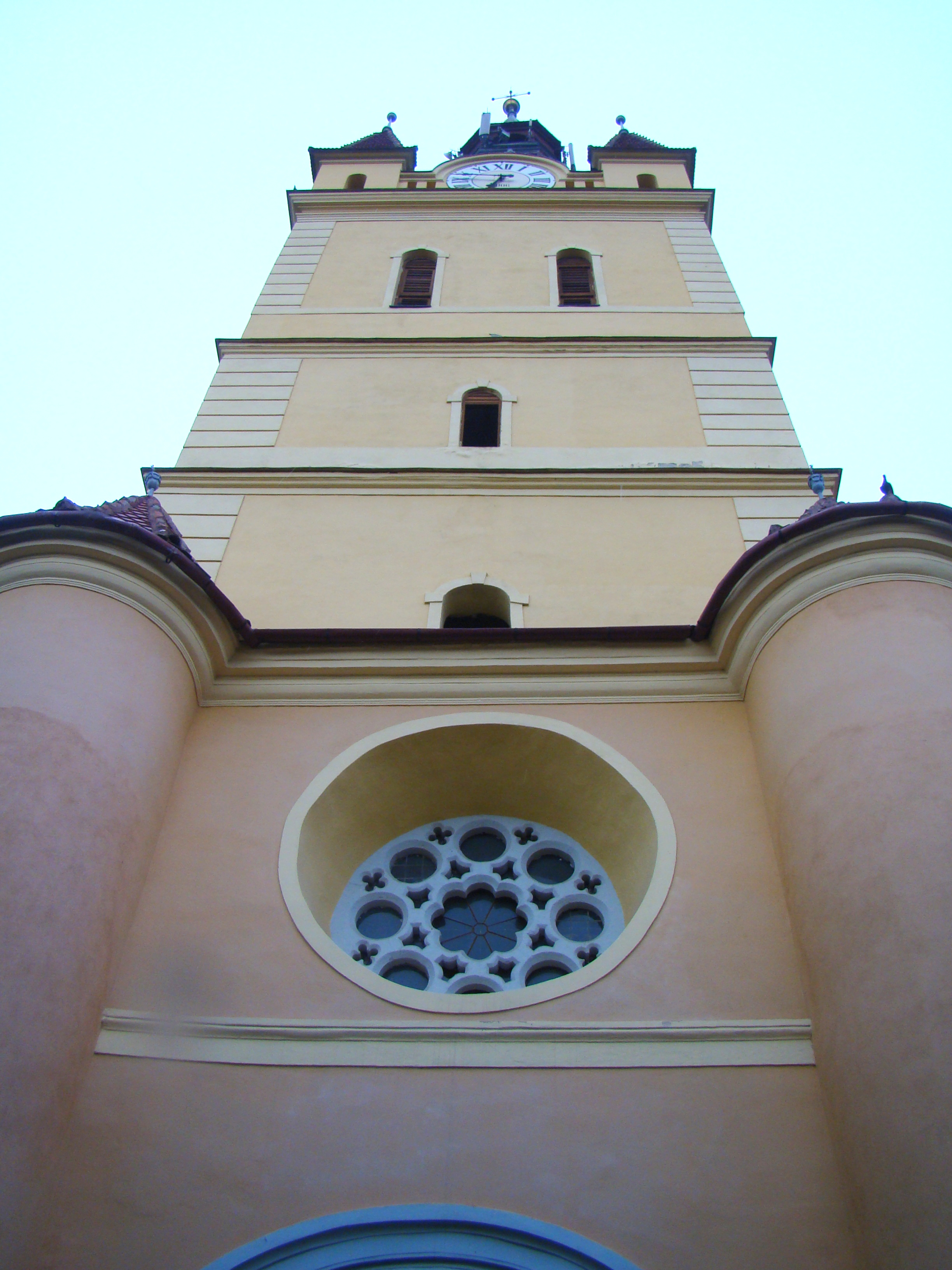 Fortified church in Cristian, Brașov County, Romania